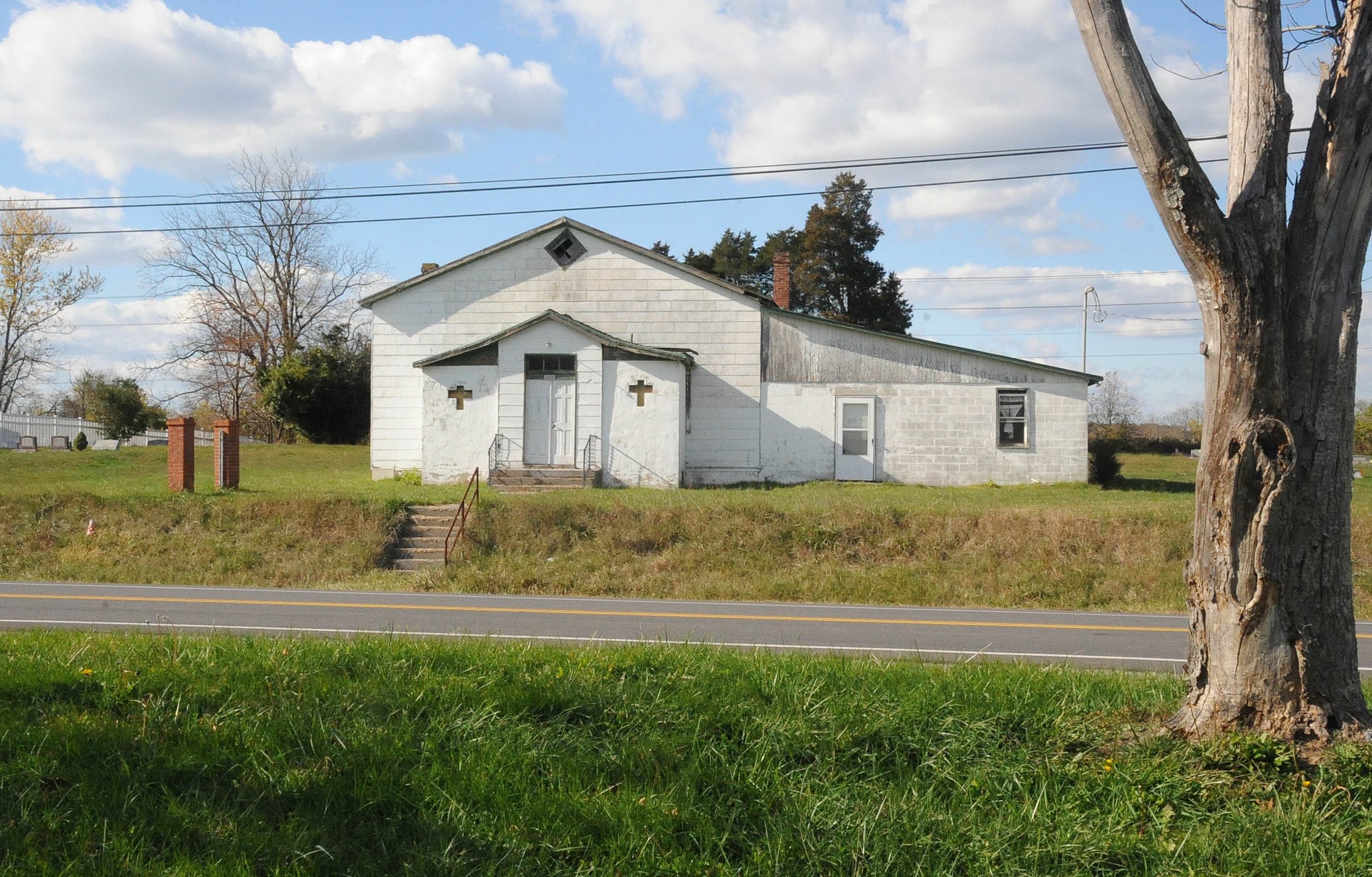 EBENEZER PRIMITIVE BAPTIST CHURCH; BUILT IN 1918 REPLACING AN EARLIER 1897 CHURCH